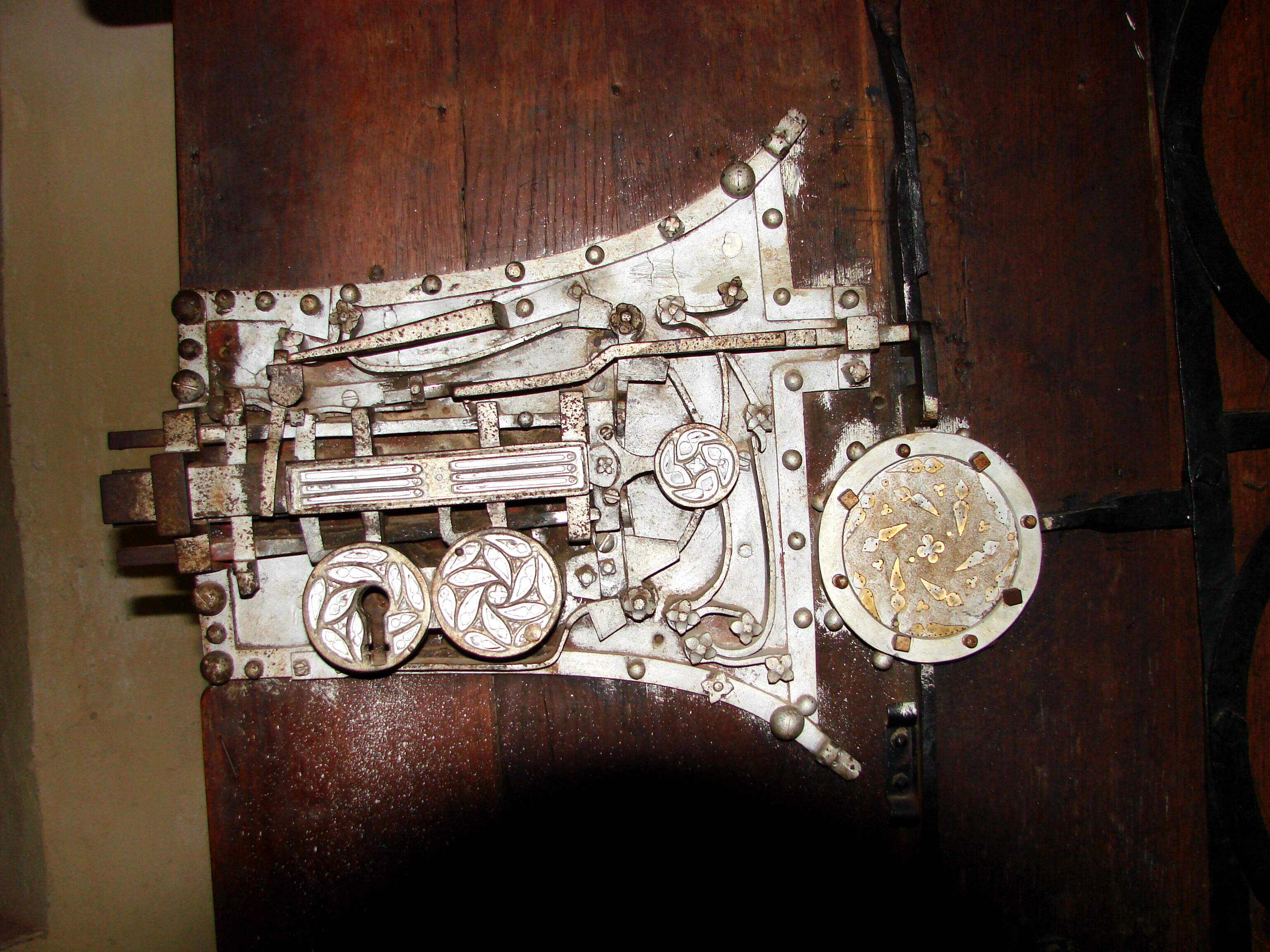 Lock on a wooden door in the church at Biertan, Romania. The lock contains 19 locks in one, "and is such a marvel of engineering it won first prize at the Paris World Expo in 1900." (Lonely Planet)